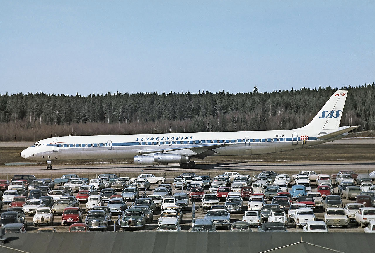 SAS Douglas DC-8-63